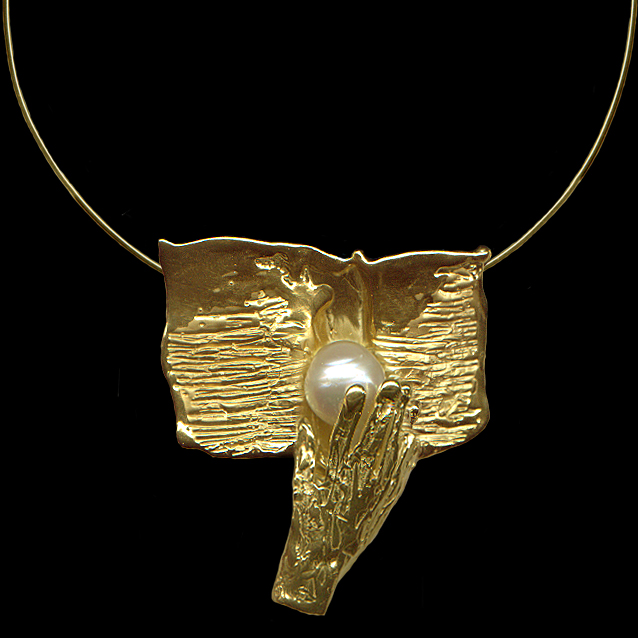 Graba' juwel from the cycle Paradise Lost